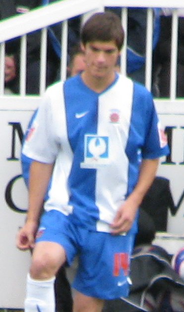 James Brown. Image cropped from original at flickr.